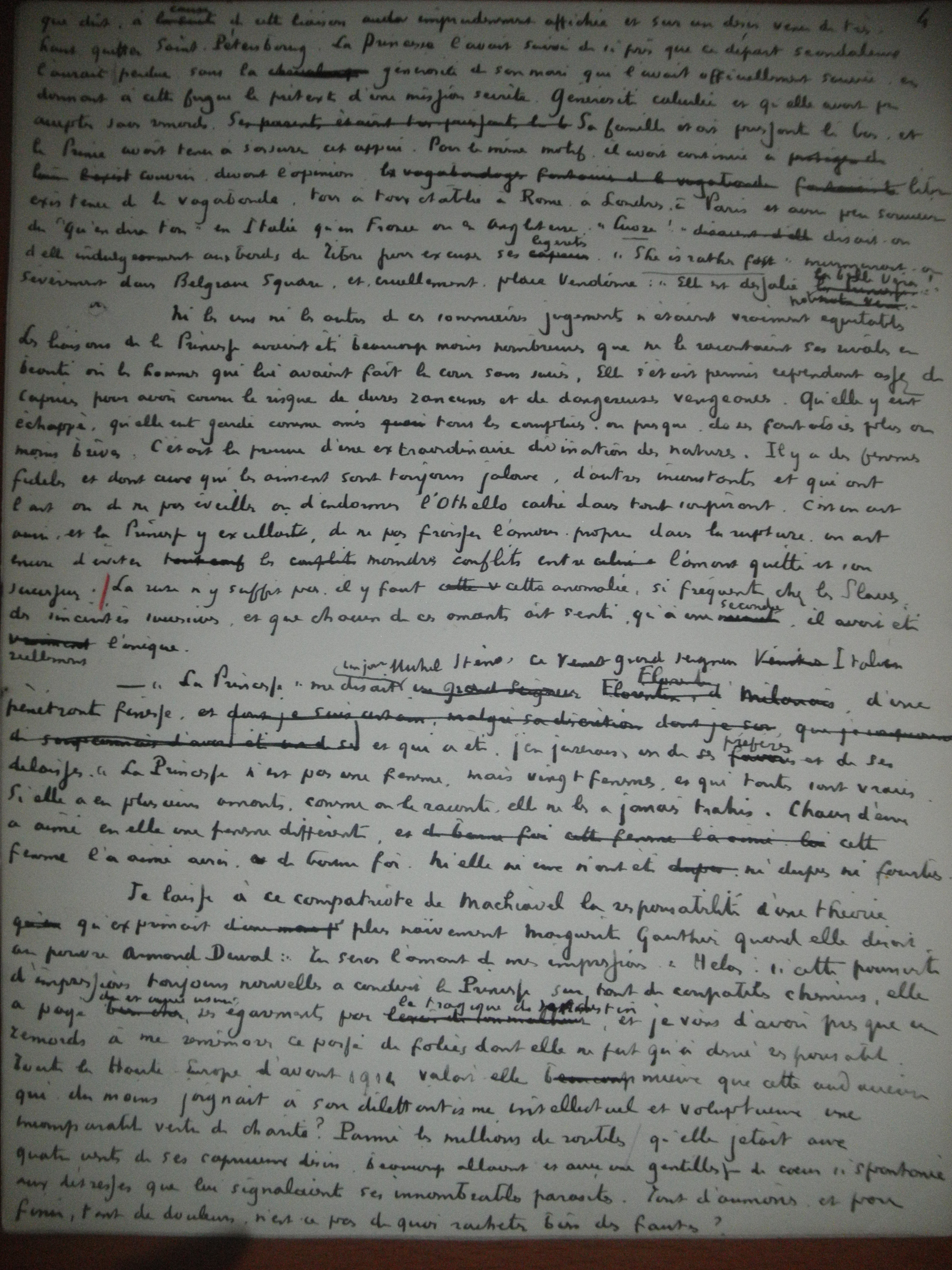 beau rôle 4